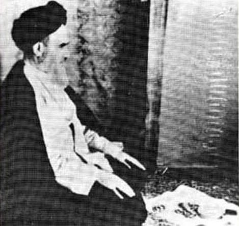 Ruhollah Khomeini and pray.